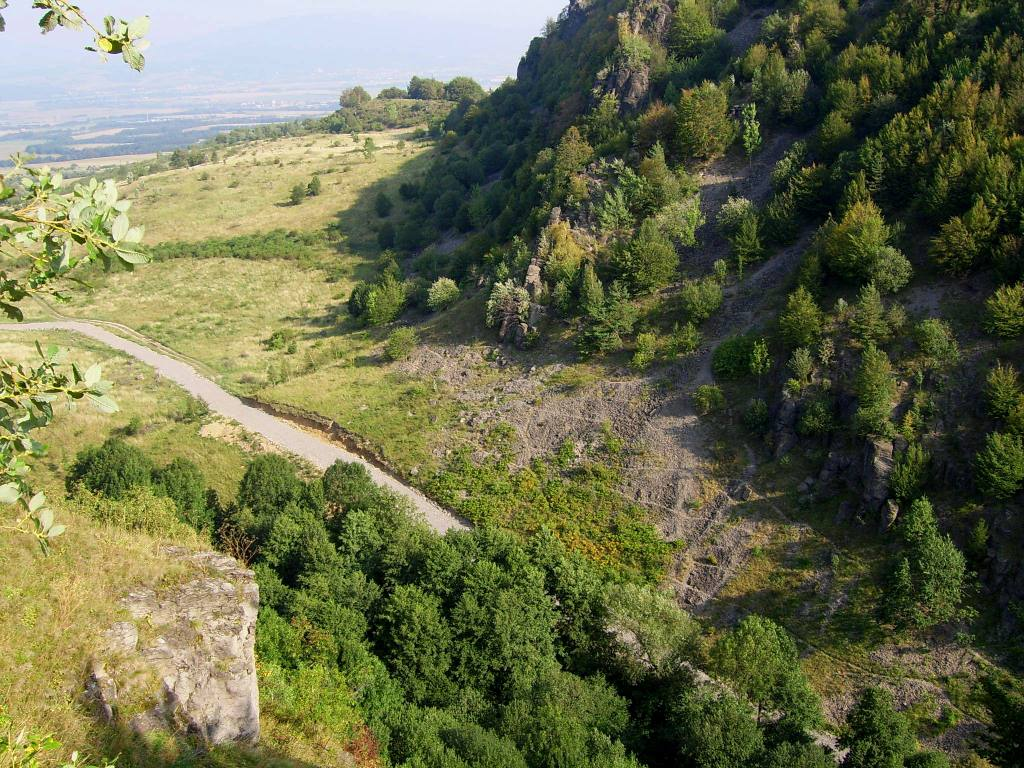 Natural Monument Sivý kameň in Podhradie, Slovakia. View on the Krivá skala.